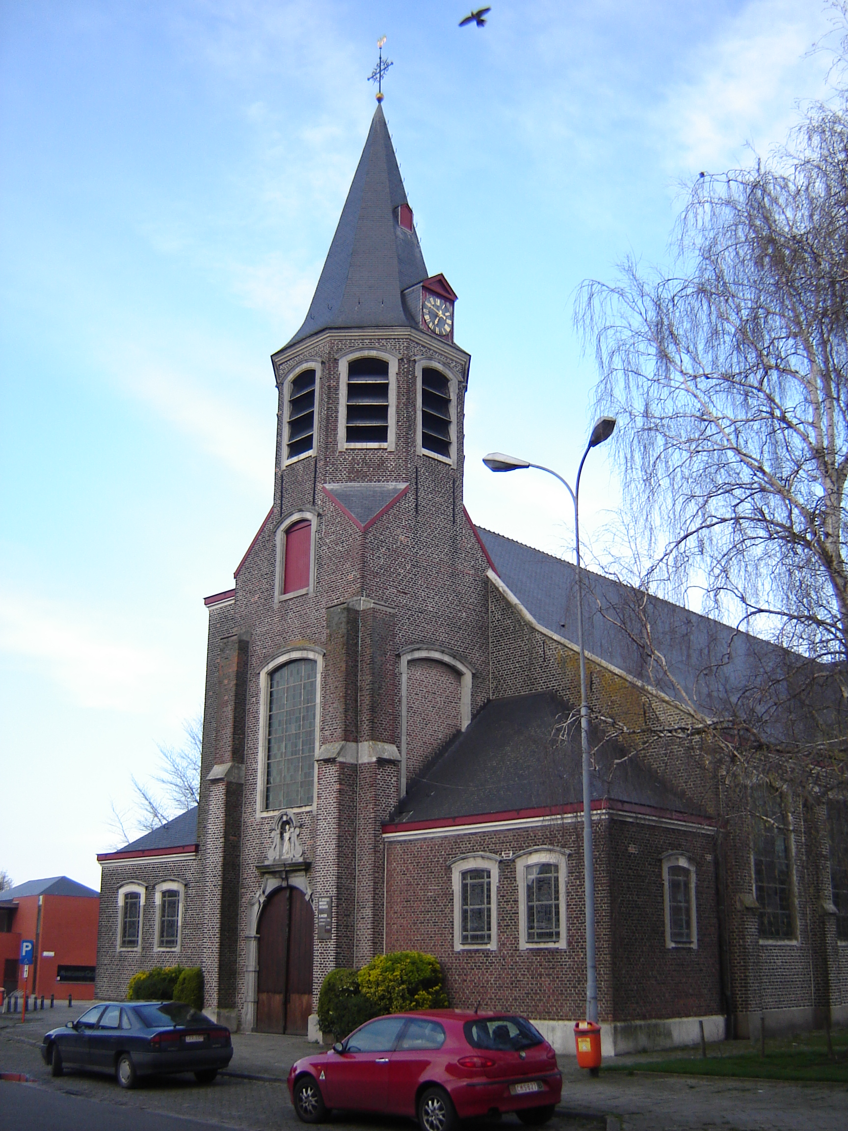 Church of Saint Amand in Oostakker. Oostakker, Gent, East Flanders, Belgium